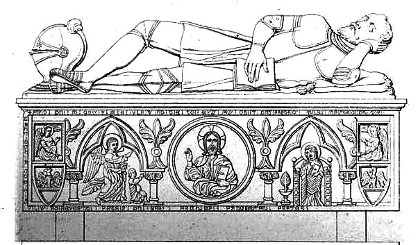 Frederick of Antioch